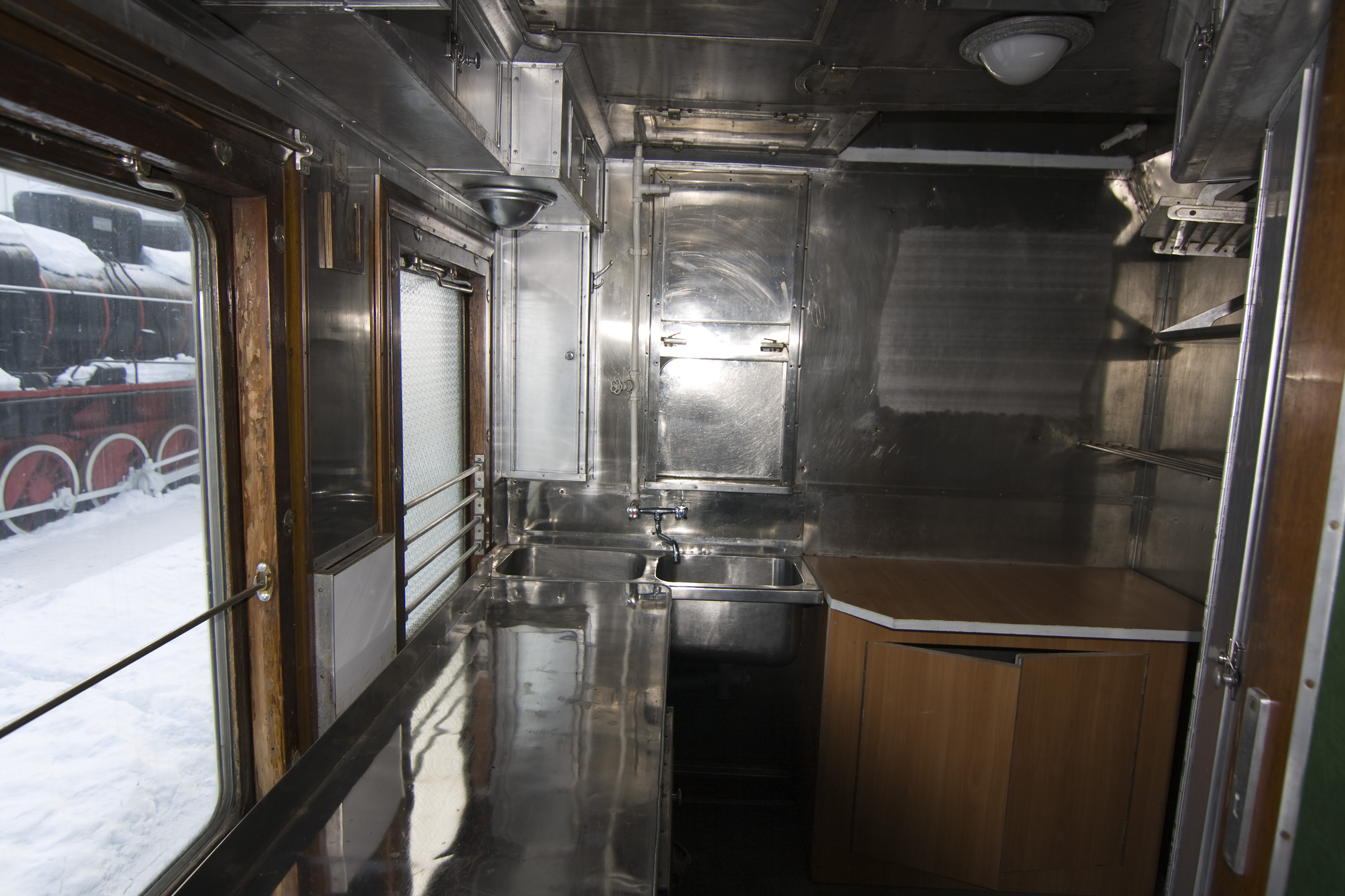 Kitchen in passenger railway carriage